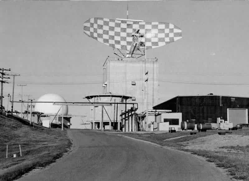 This is a photo of Fortuna Air Force Station that was taken during my assignment there in 1976 to 1978. The large radar depicted is known as an FPS-35 Search radar (IEEE UHF Radar), with the Secondary Surveillance Radar (SSR) antennas (beam and omni antennas) above it (IEEE L-Band Radar IFF/SIF). The power plant is to the right, and the FPS-26A (IEEE C-Band Radar) Height Finder Dome can be seen to the left.